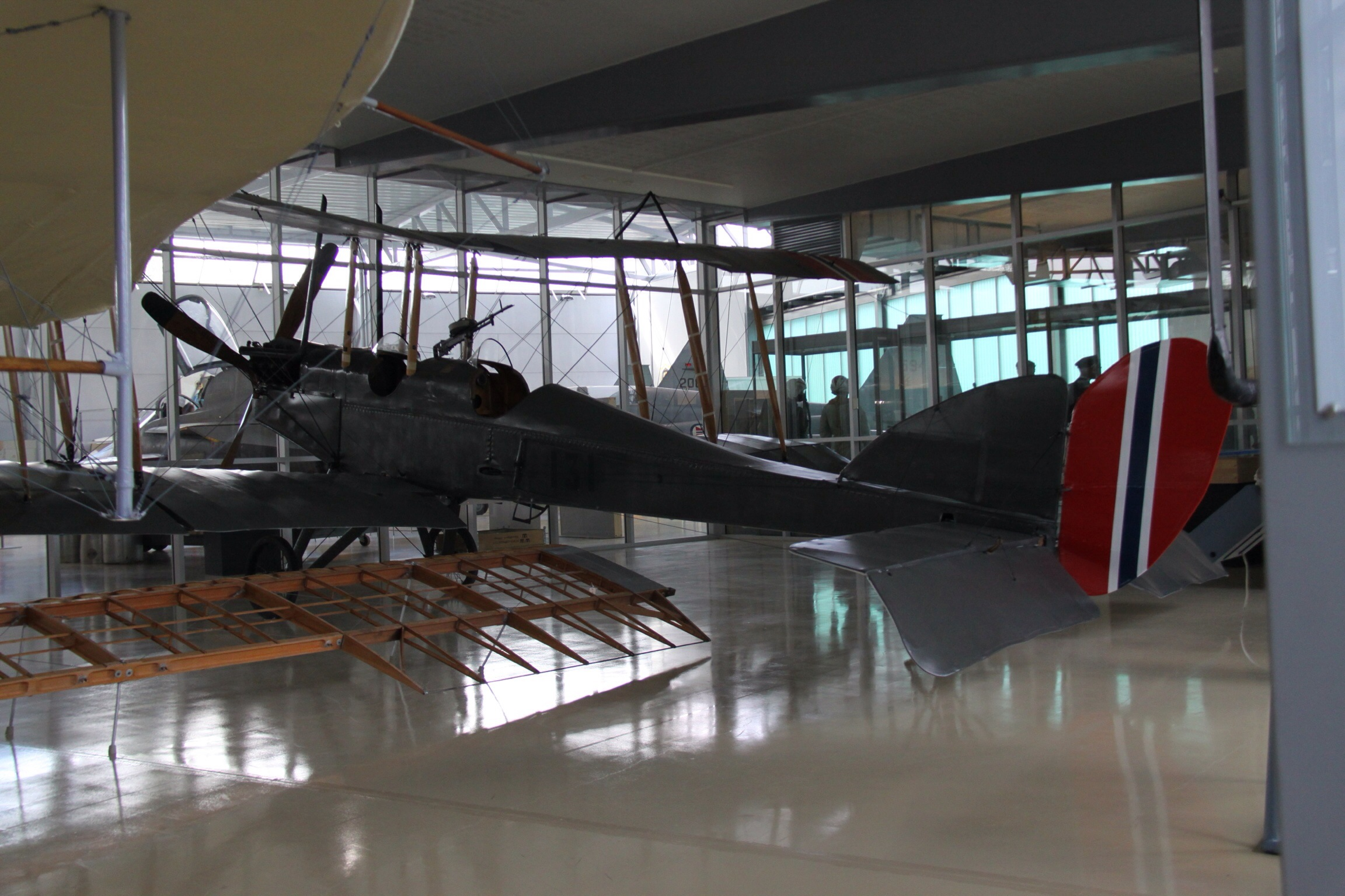 At Oslo Gardermoen